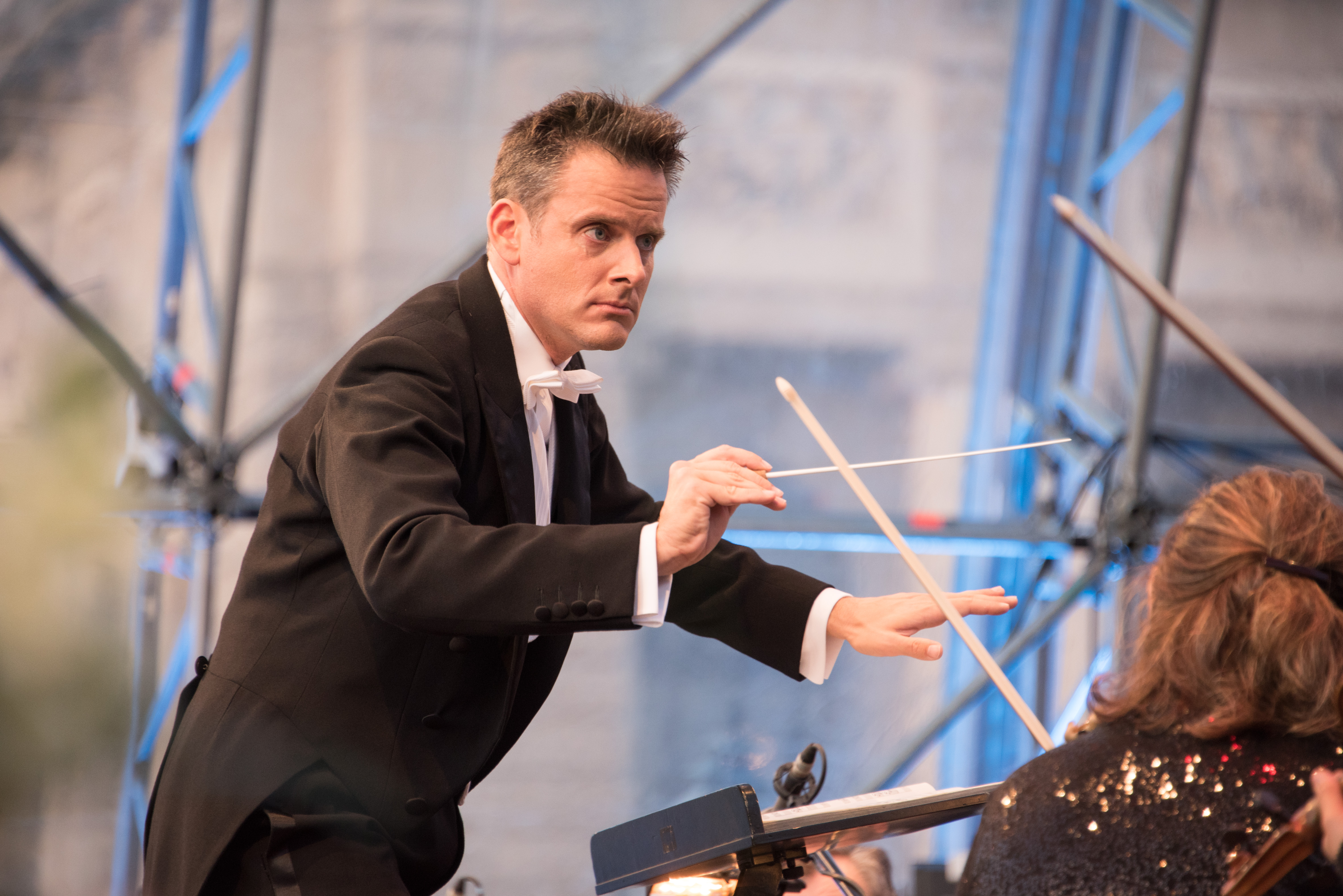 Philippe Jordan conducts at the Fest der Freude 2015